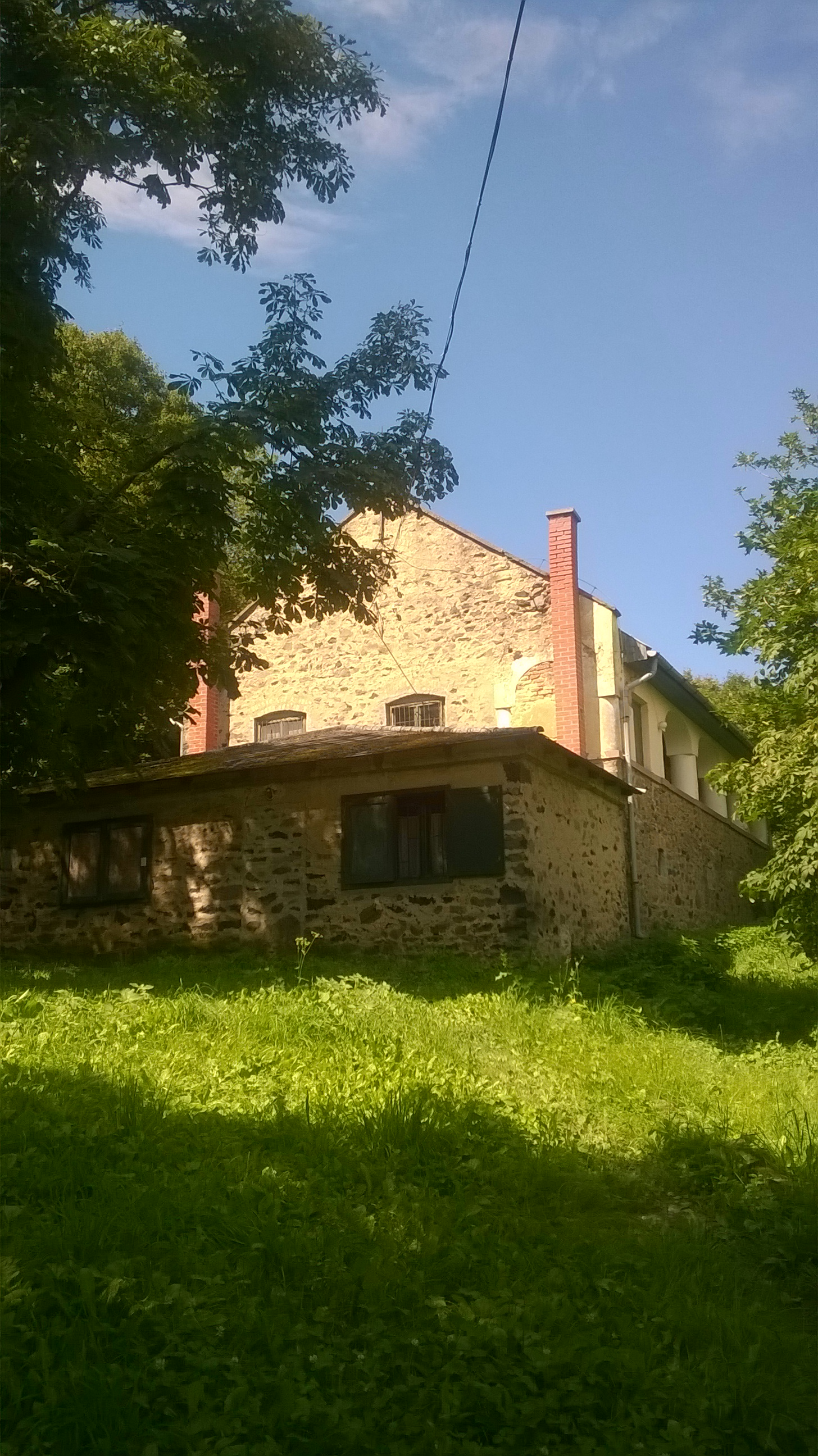 Kaán Károly hut